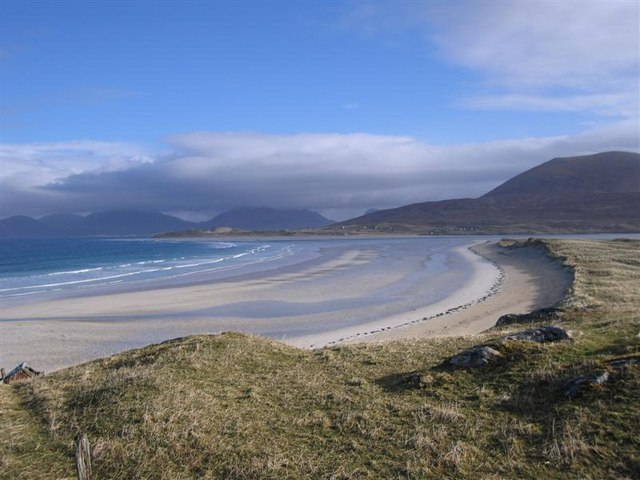 Traigh Seilebost Beach Isle of Harris, Scotland.